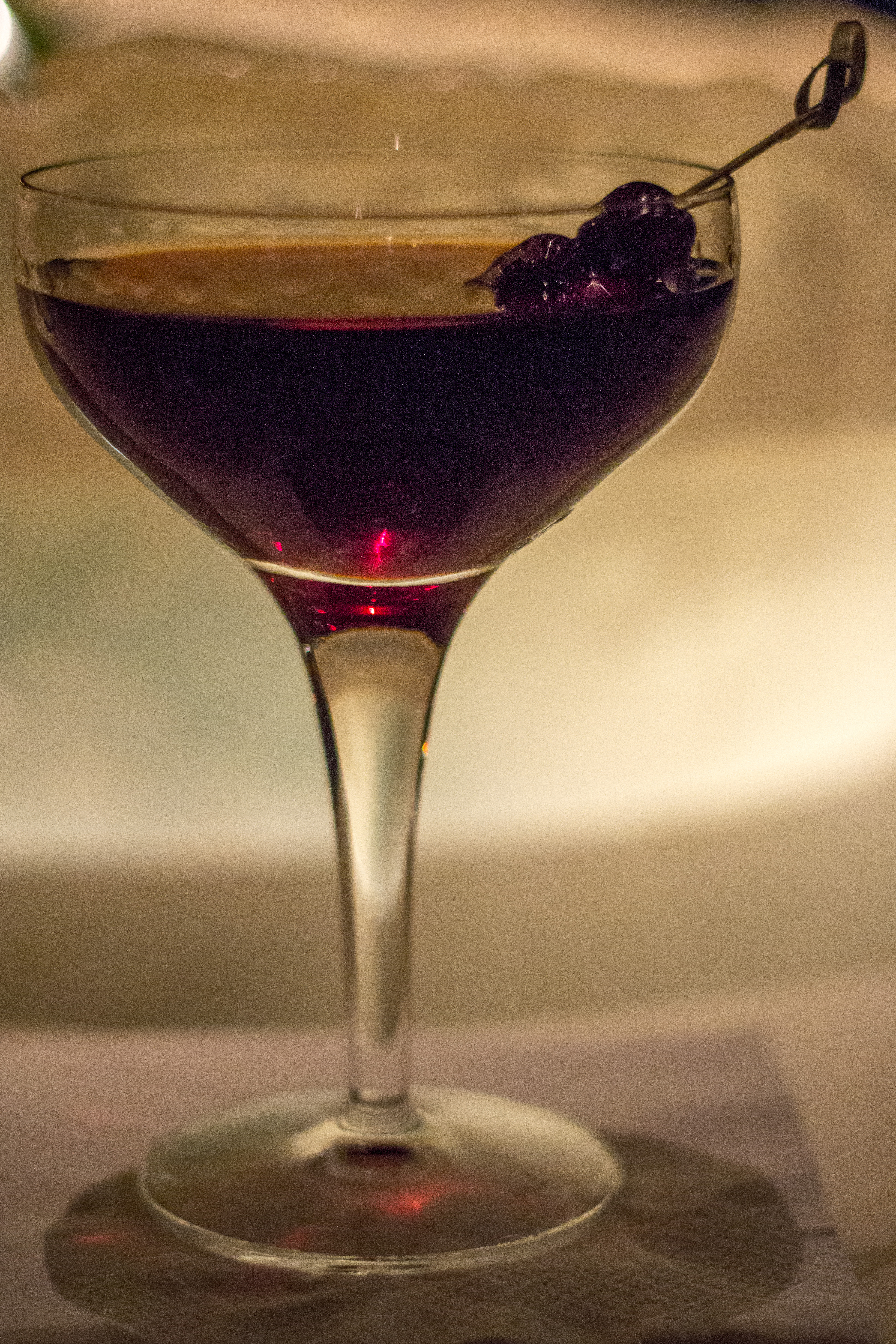 Professor Langnickel Cocktail (Kirsch Eau de Vie, Cherry Liqueur, Sherry, served in a coupette with brandied cherries) by bartender Mario Kappes, Le Lion Bar de Paris, Hamburg, Germany